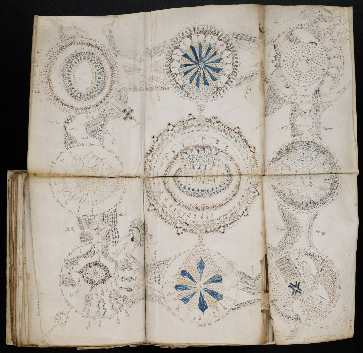 A page from the mysterious Voynich manuscript, which is undeciphered to this day.